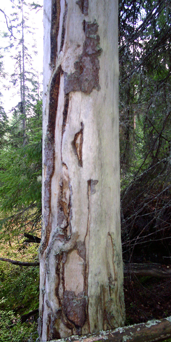 Old fire-damages in a dry Pine (Pinus Sylvestris), Nybrändberget, Grangärde, Sweden. Note: It was not the fire that killed this tree. It died by other reasons many years later. (Brandljud i torraka).